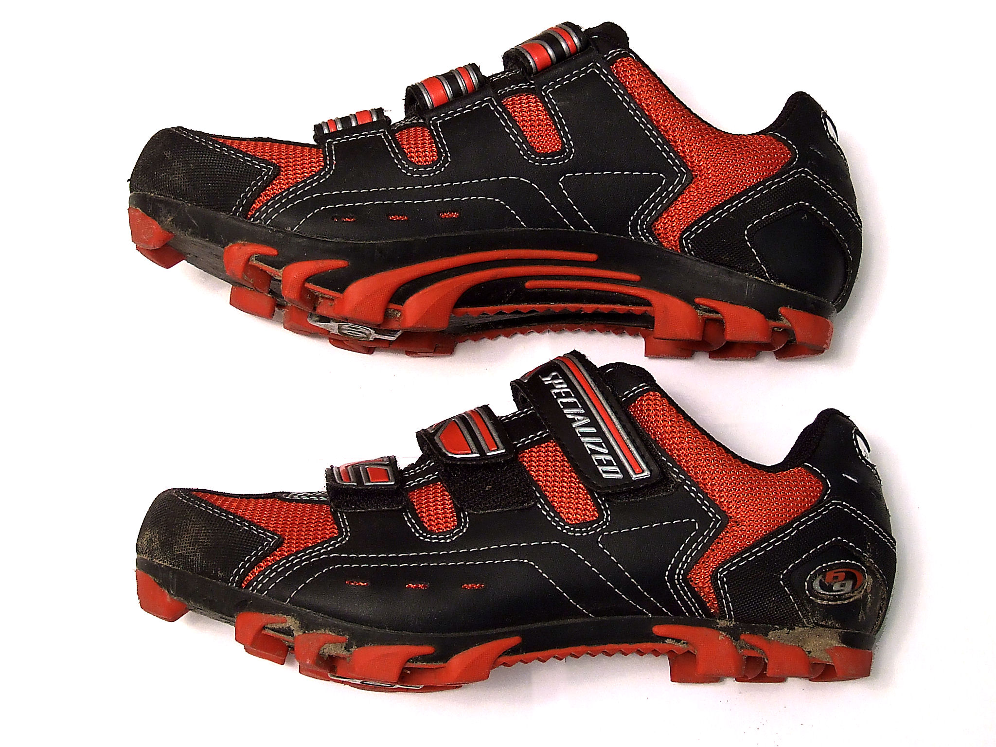 Specialized Sport cycling shoes